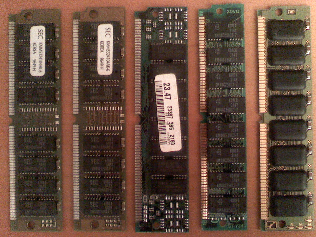 Some old RAM modules, the first two on the left are 8 MB modules, the other three are 4 MB modules